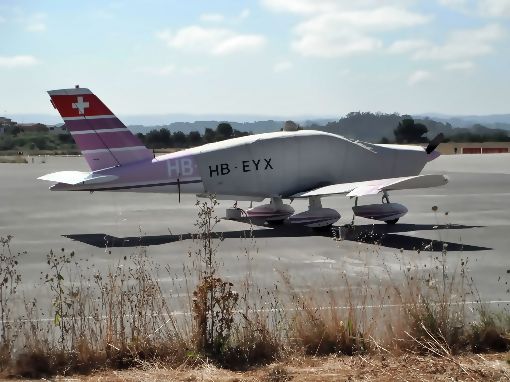 Socata Tobago parked at A Coruña Airport